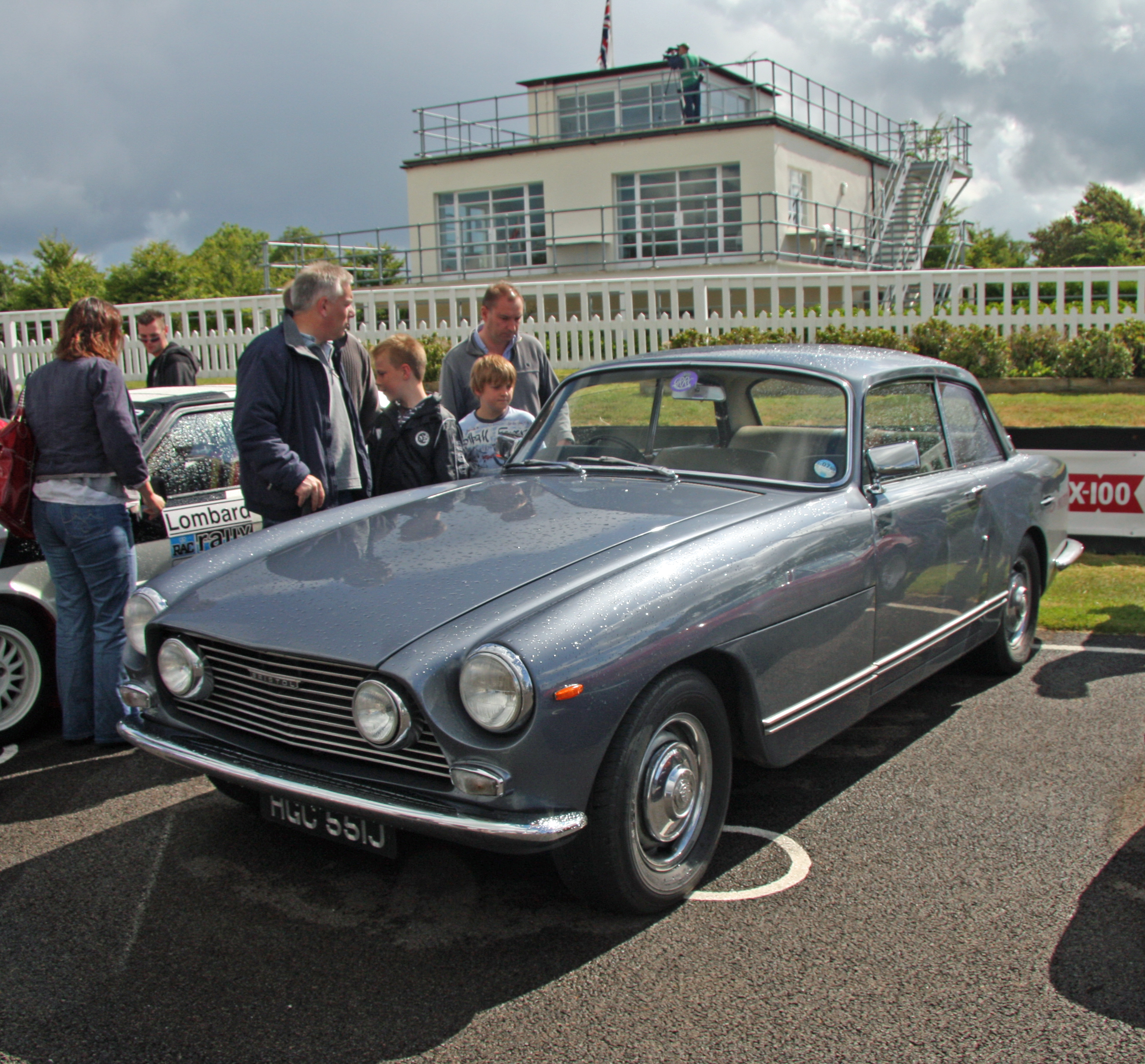 Bristol 411